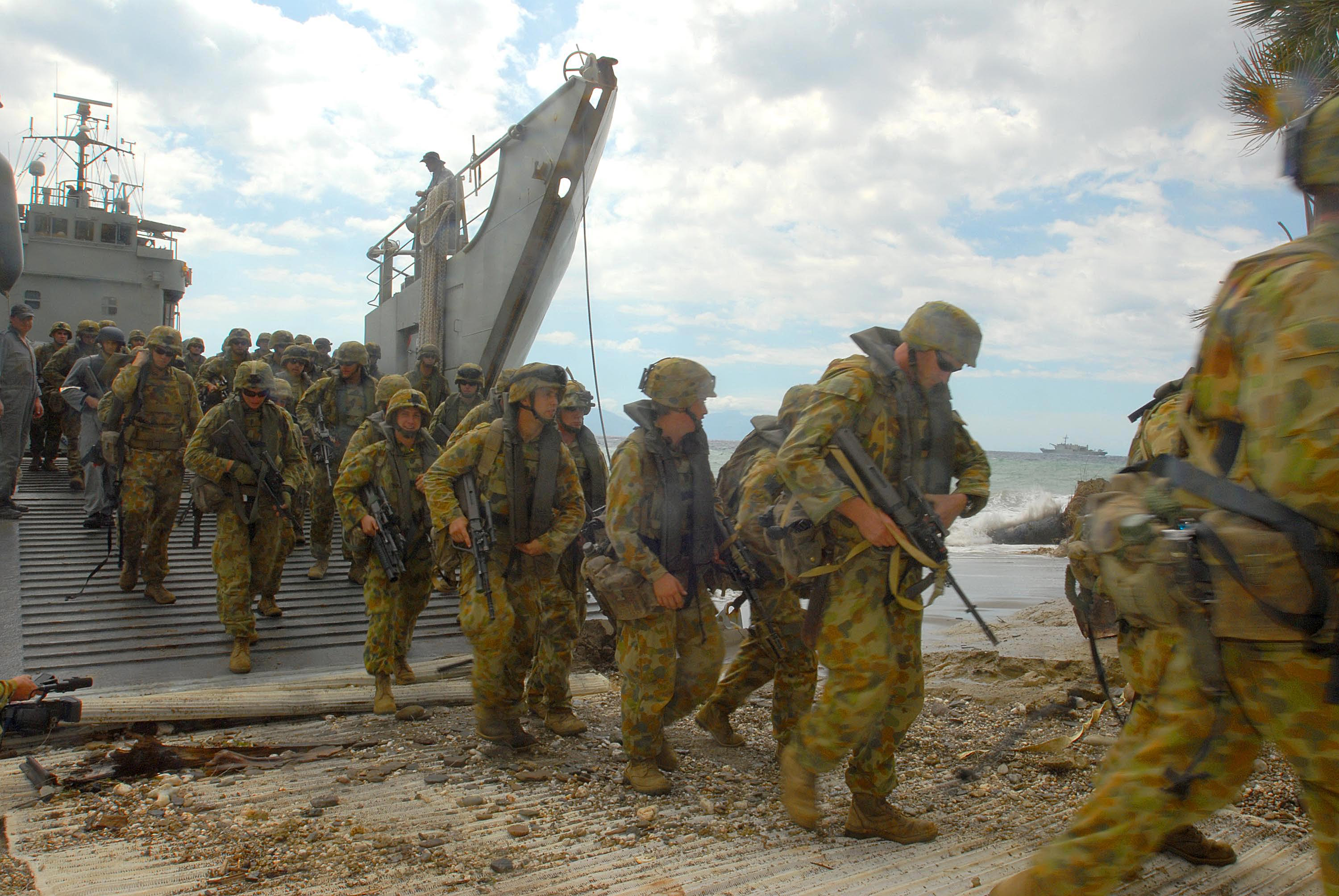 Timor: ISF troops landing on Timor beach 'Soldiers from the Australian Army walk from HMAS BALIKPAPAN during a beach landing in the Comoro district of Timor Leste' (May 2006) [Defence].